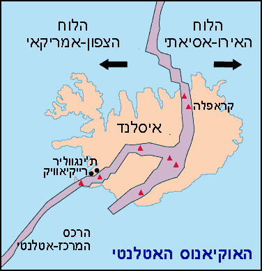 Map showing the Mid-Atlantic Ridge splitting Iceland and separating the North American and Eurasian Plates. The map also shows Reykjavik, the capital of Iceland, the Thingvellir area, and the locations of some of Iceland's active volcanoes (red triangles), including Krafla.